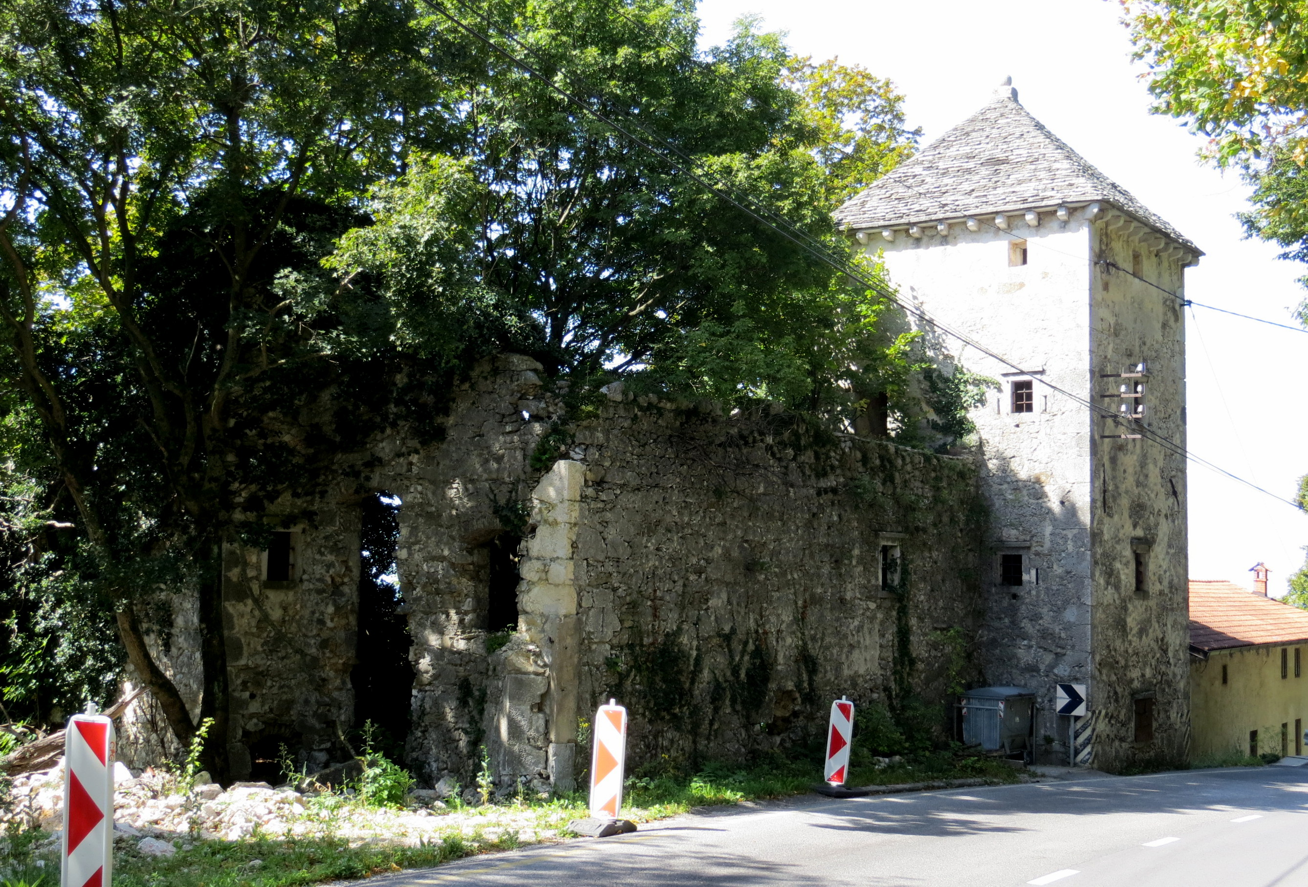 Trilek Castle in Col, Municipality of Ajdovščine, Slovenia